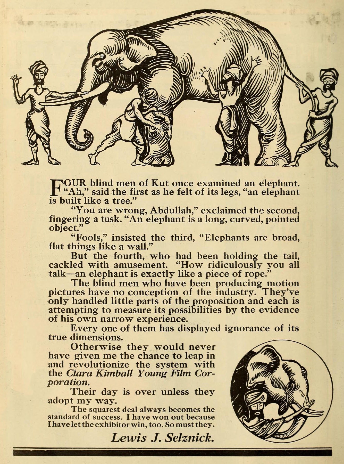 Advertisement in Moving Picture World